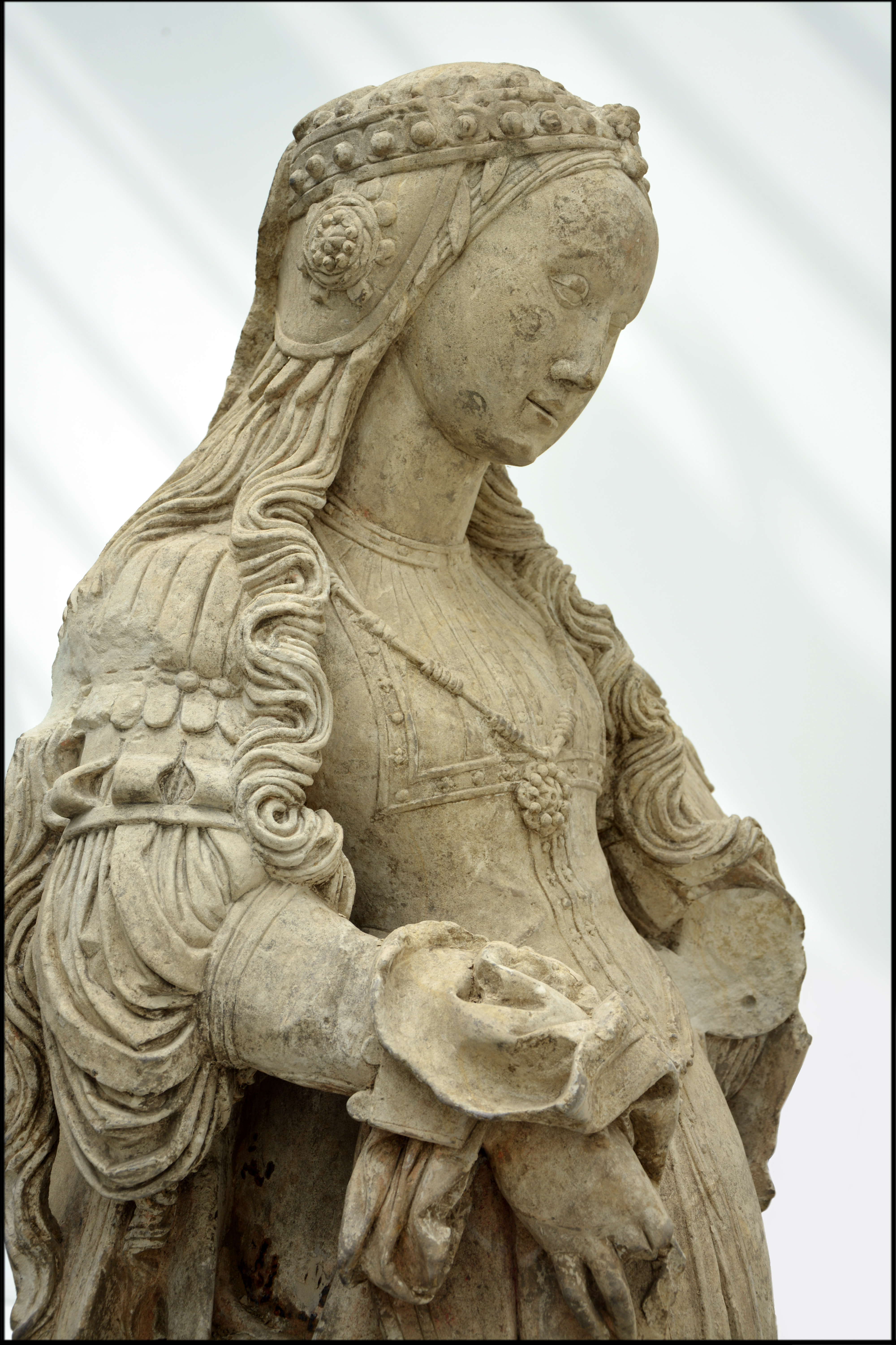 Saint Agnes of Rome, probably carved circa 1520-1530 (Avesnoi's limestone); Photography done in the Museum restoration room Museum of Fine Arts in Lille. The statue is being restored and cleaned by Sabine Kessler (end of restoration work, the end of July 2016). Another statue found in the same grave ; statue of St. Agnes is at the same time and in the same place restored by Julie André-Madjelessi. Both statues are part of a group of four sculptures discovered in 2013 in a pit in Orchies, and called "Belles du nord".